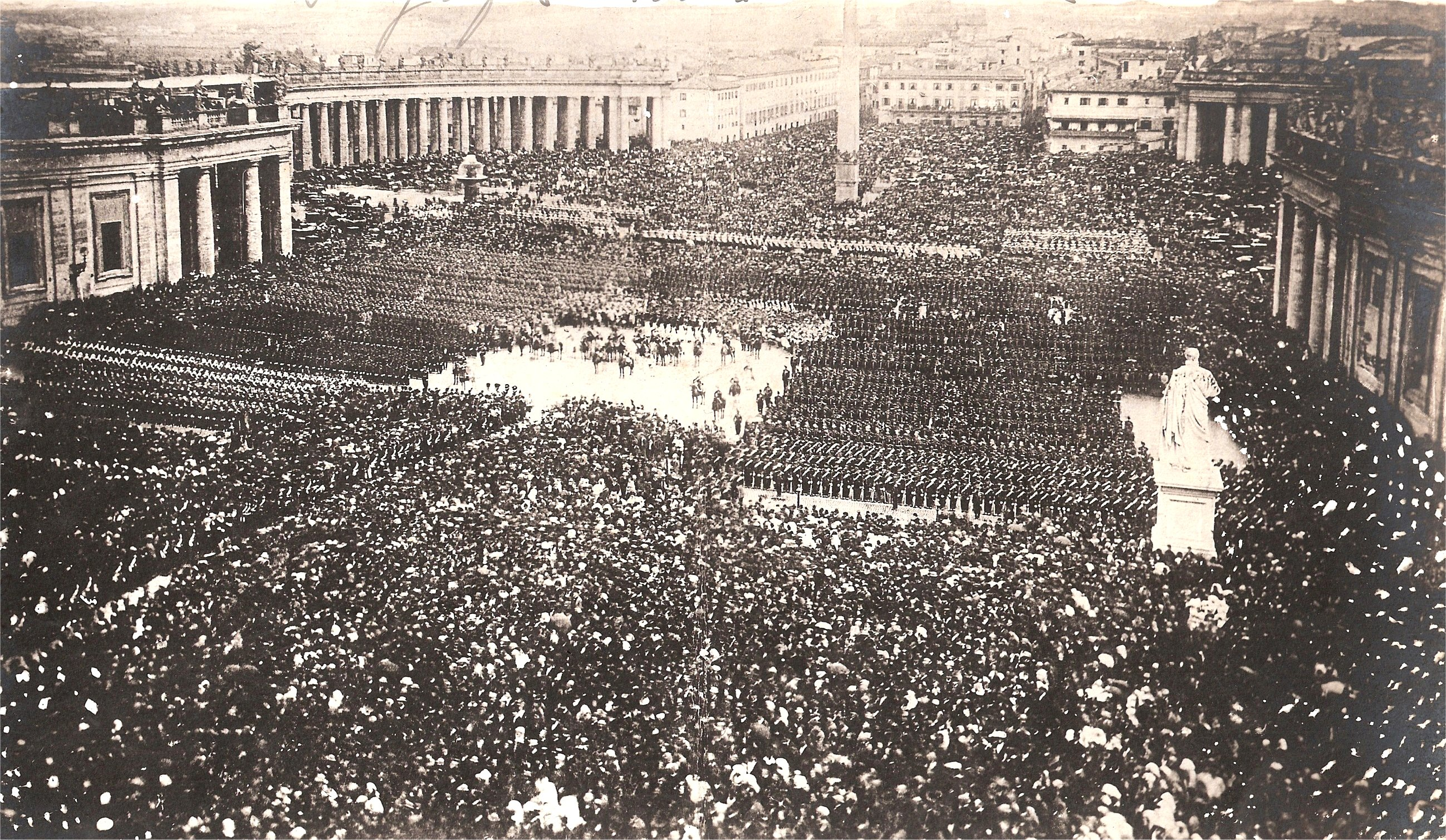 Pope Pius IX blesses his troops for the last time before the Capture of Rome - 25 april 1870. The original picture, scanned by Emiliano Burzagli, belongs to the Private archive of Burzaghi family, Italy. *